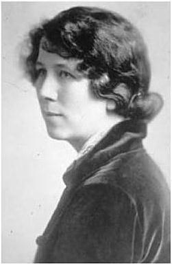 Portrait of Fola La Follette, 1918-20